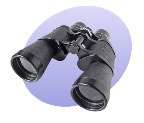 Intelligence portal logo